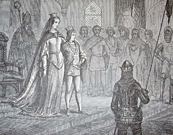 Erik of Pommern (Pomerania) is crowned as king of the Nordic countries.